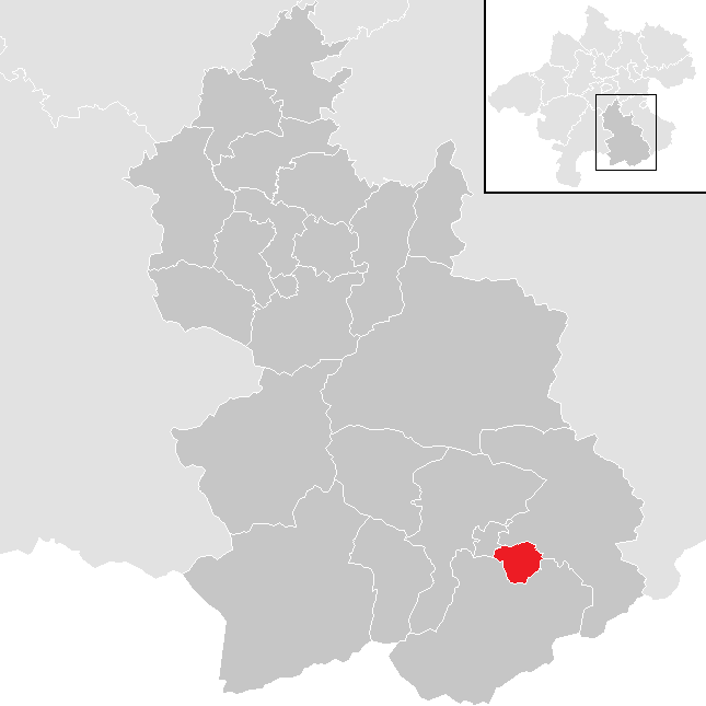 district Kirchdorf an der Krems